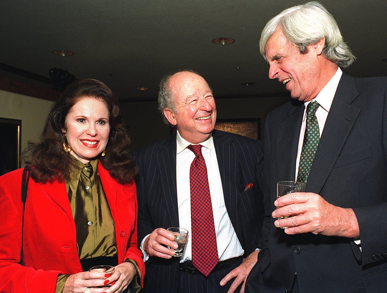 Ann Moller 26OCT93 photo by NANCY WONG ANN MOLLER, HERB CAEN AND GEORGE PLIMPTON CELEBRATE THE 40TH ANNIVERSARY OF THE PARIS REVIEW AT A PARTY FOR THE MAGAZINE IN SAN FRANCISCO AT THE ENGINEERS' CLUB, SANSOME STREET.